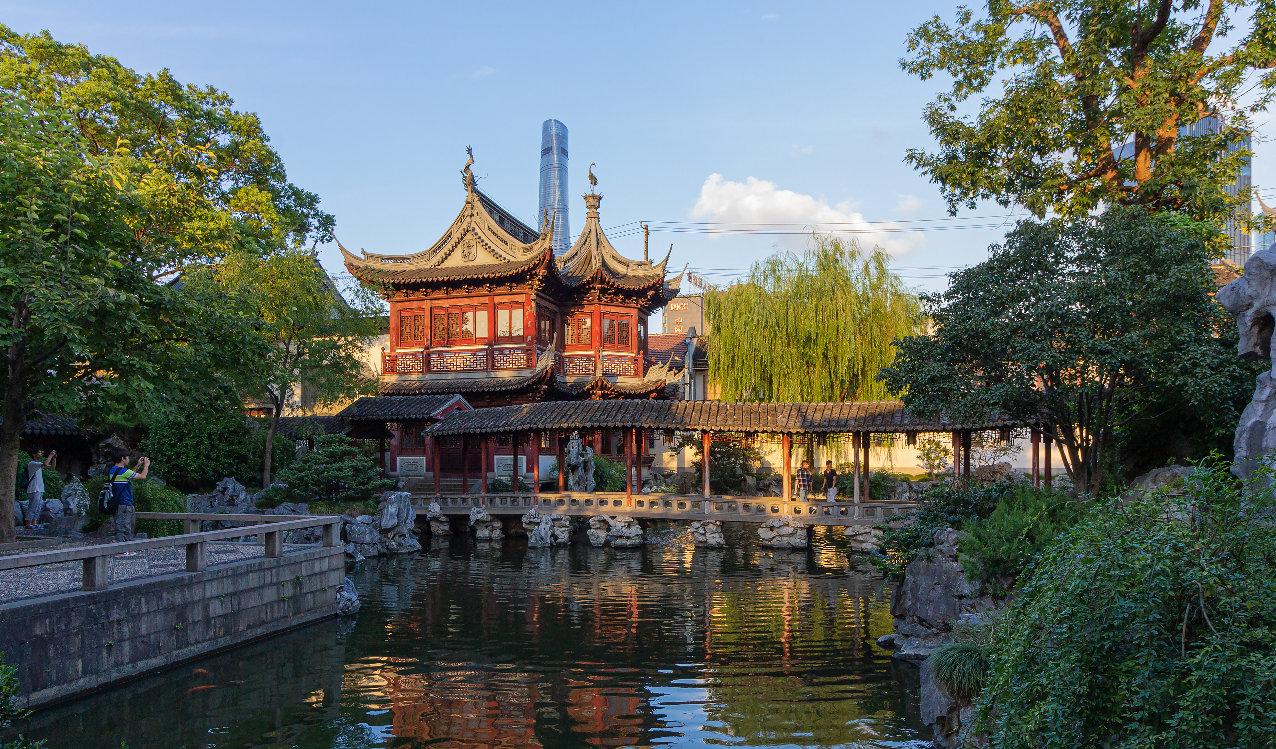 Tingtao Tower Exhibit Hall and a pond in Yu Garden, Shanghai, China